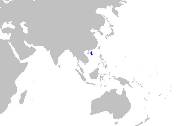 Distribution map for Apristurus micropterygeus